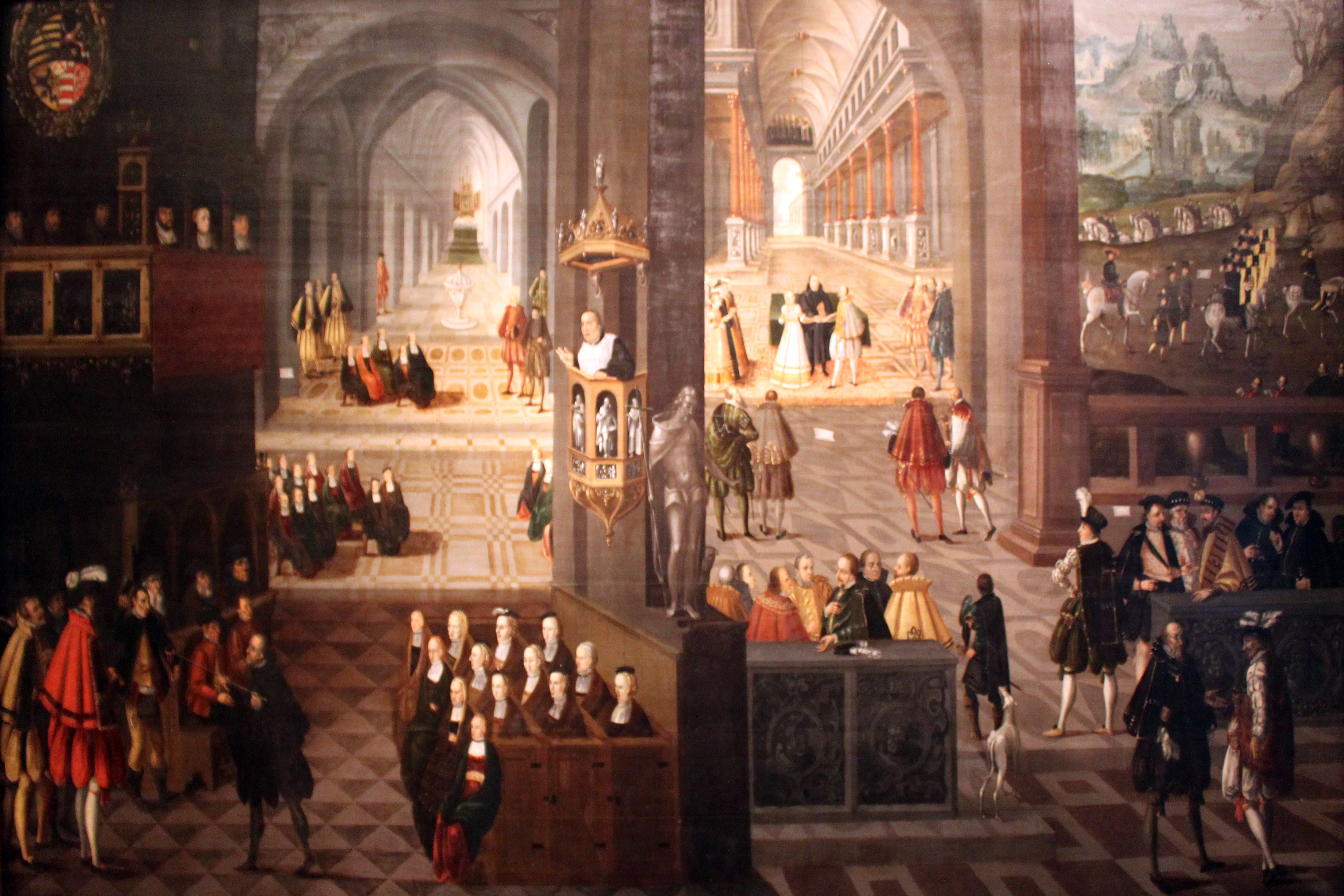 In 28 scenes the panels depict the Protestant view of the life of the elector. The first shows the young prince elector gathering alms. The middle part shows his marriage to Sibylle von Kleve.